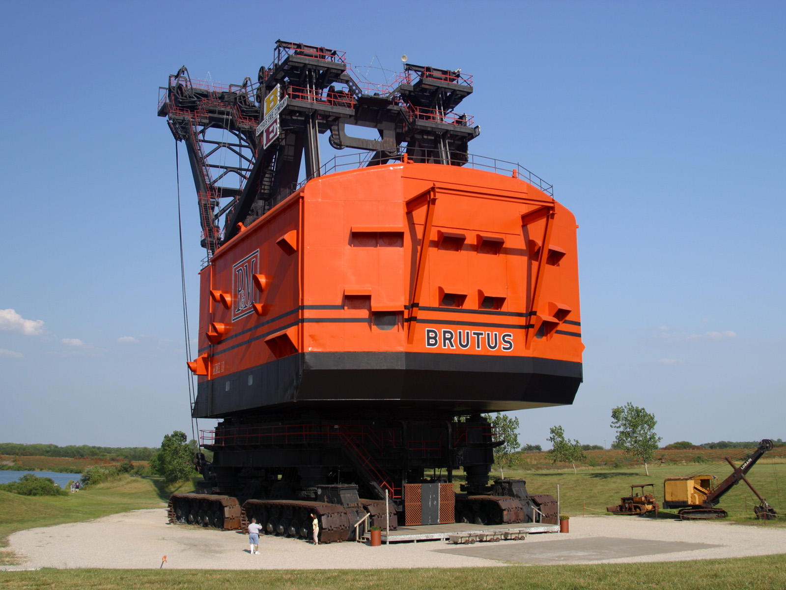 “Big Brutus” was at building time the second largest shovel of its type in operation from 1963 until 1974. ⇒Front view